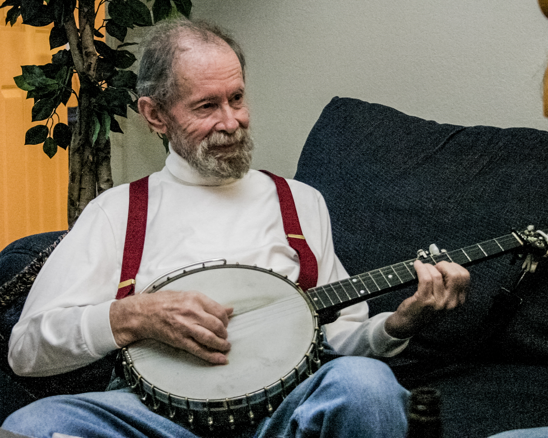 Robert Stuart "Stu" Jamieson playing the 5-string banjo.